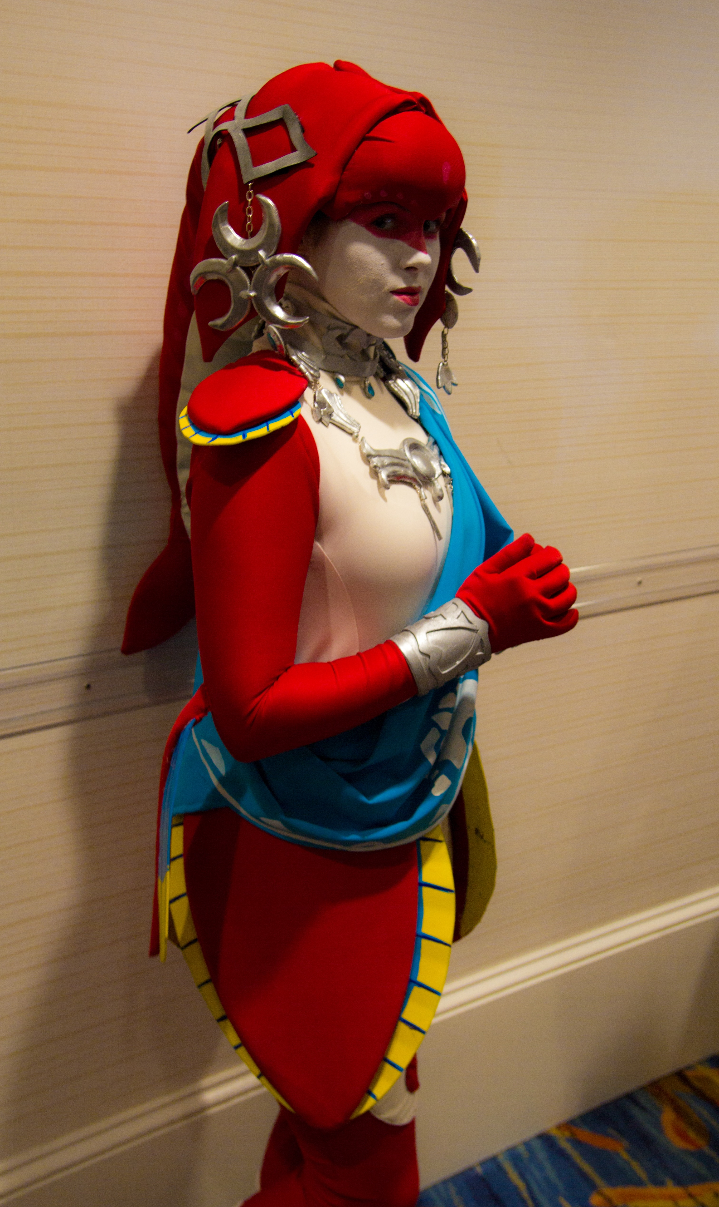 Cosplay of Mipha from "The Legend of Zelda: Breath of the Wild". From San Diego Comic-Con 2017.